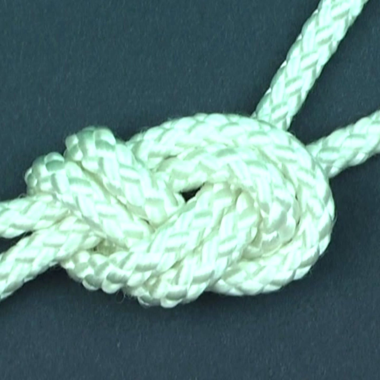 A figure eight loop.